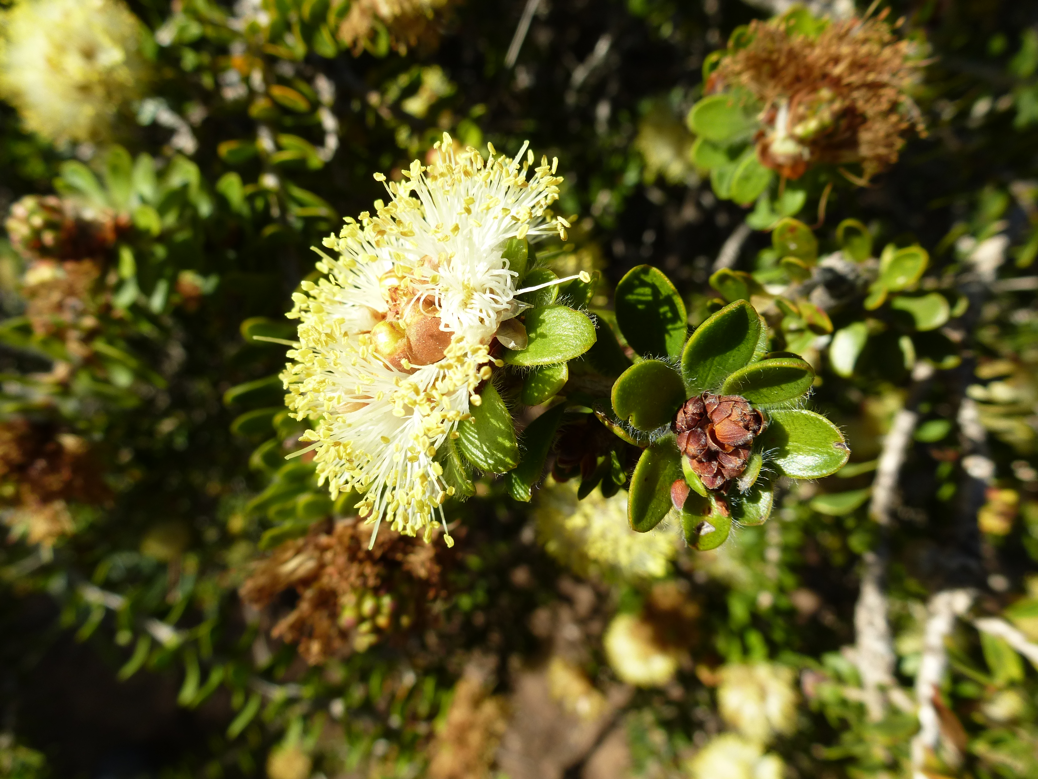 Melaleuca depressa near White Peak Road, N of Geraldton